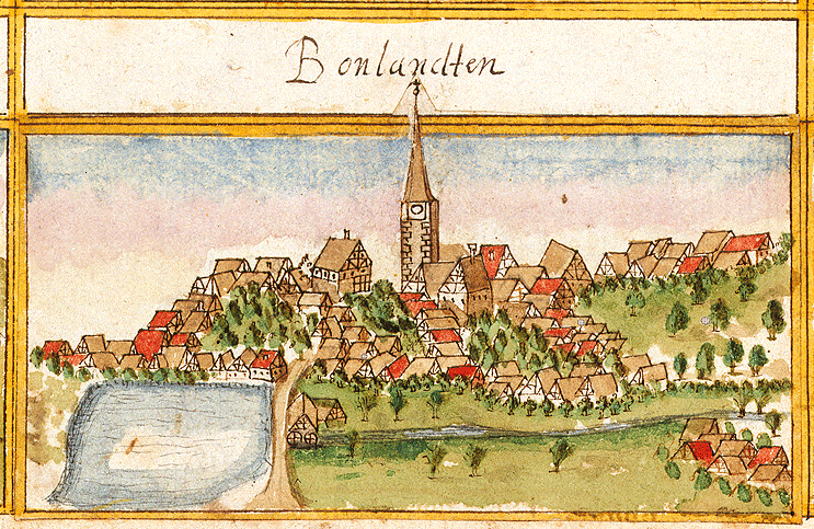 View of Bonlanden auf den Fildern, Filderstadt, from the forest register books created by Andreas Kieser